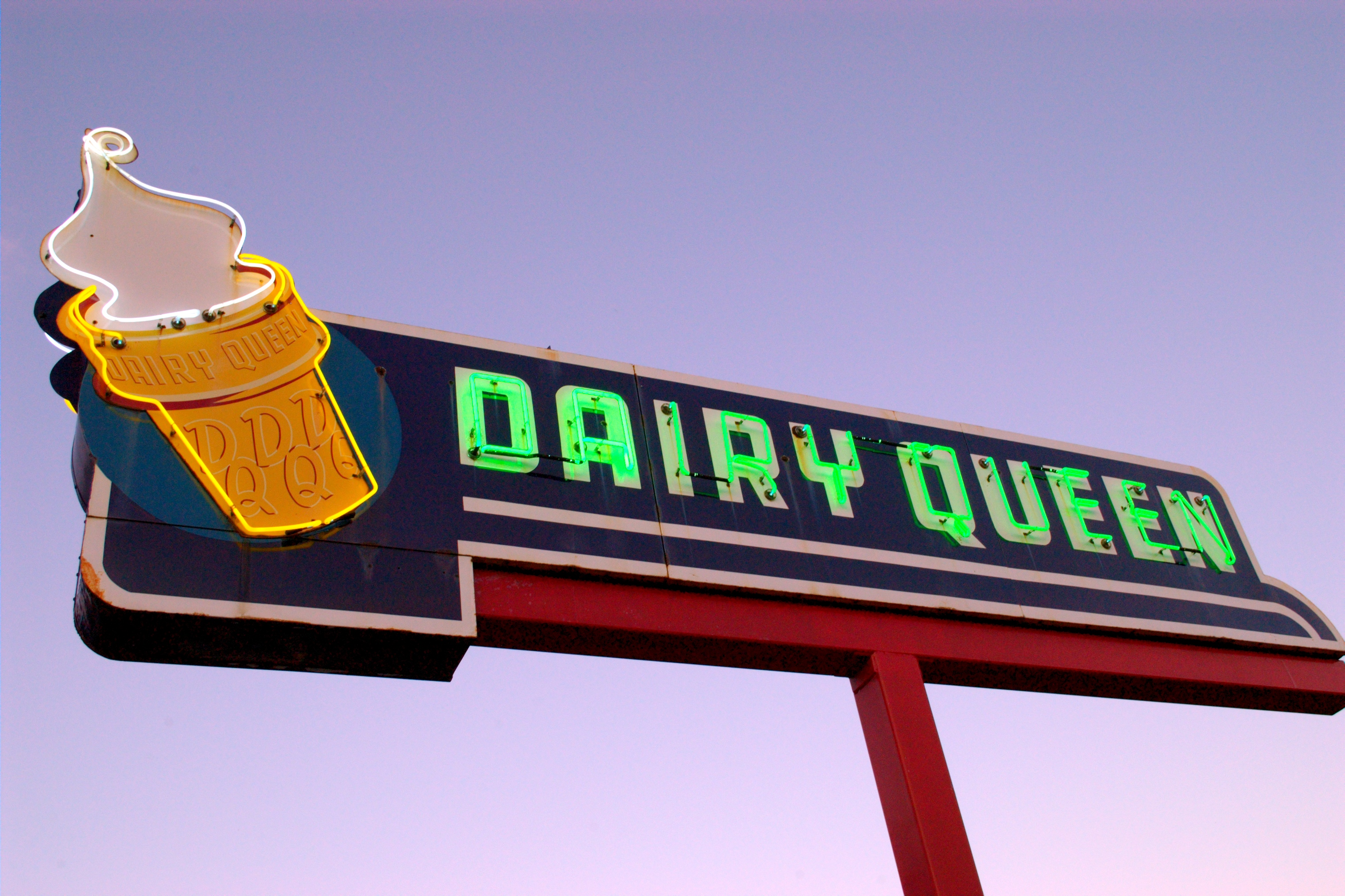 Vintage neon Dairy Queen sign, Ottawa, Canada.